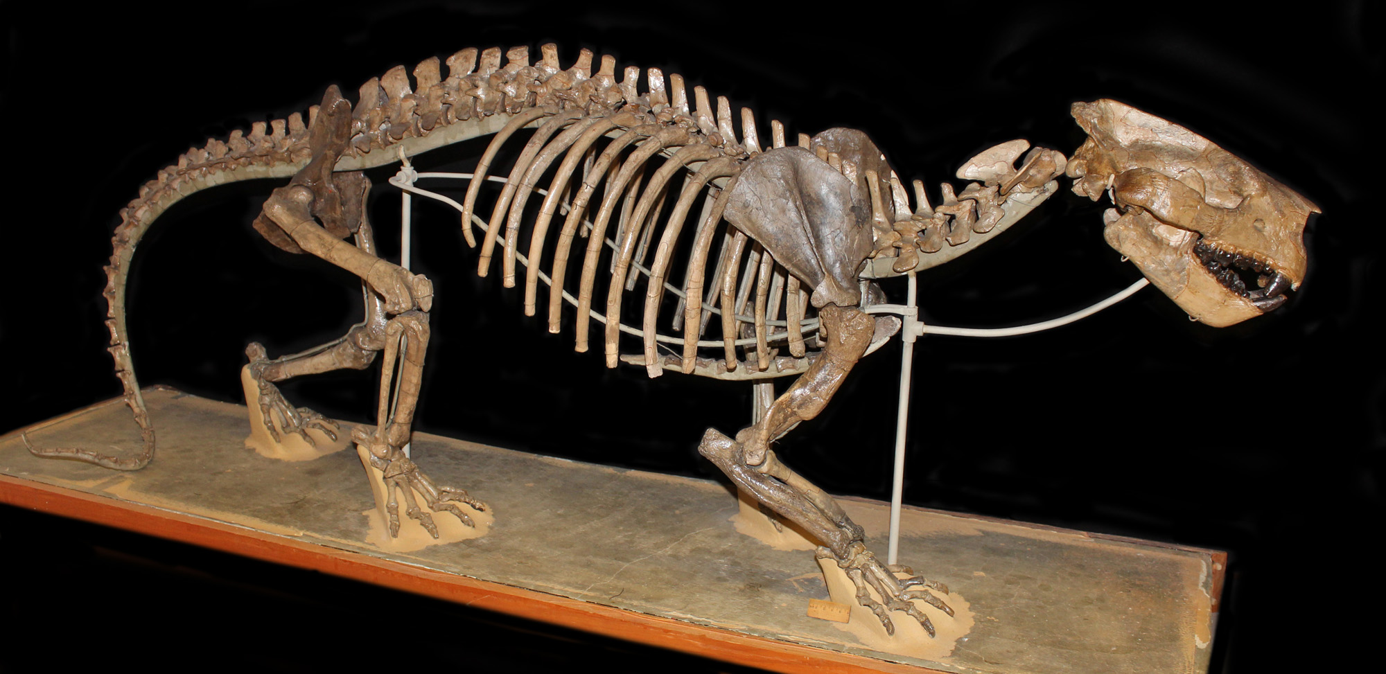 mount of Patriofelis, currently in storage in the collections of the Dept of Vert Paleo, American Museum of Natural History